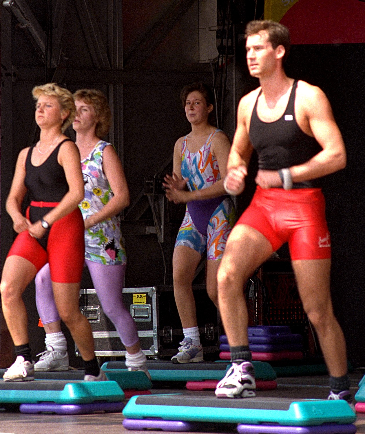 A public demonstration of aerobic exercises